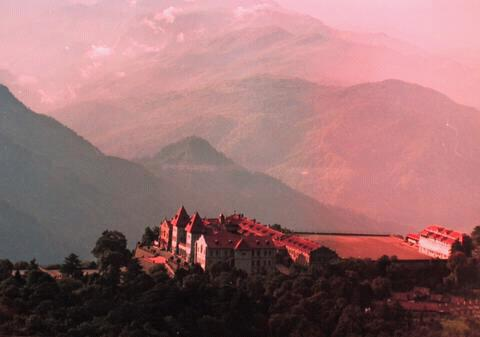 A view of the school St. Joseph's College, as seen from the Tiffin Top Nainital